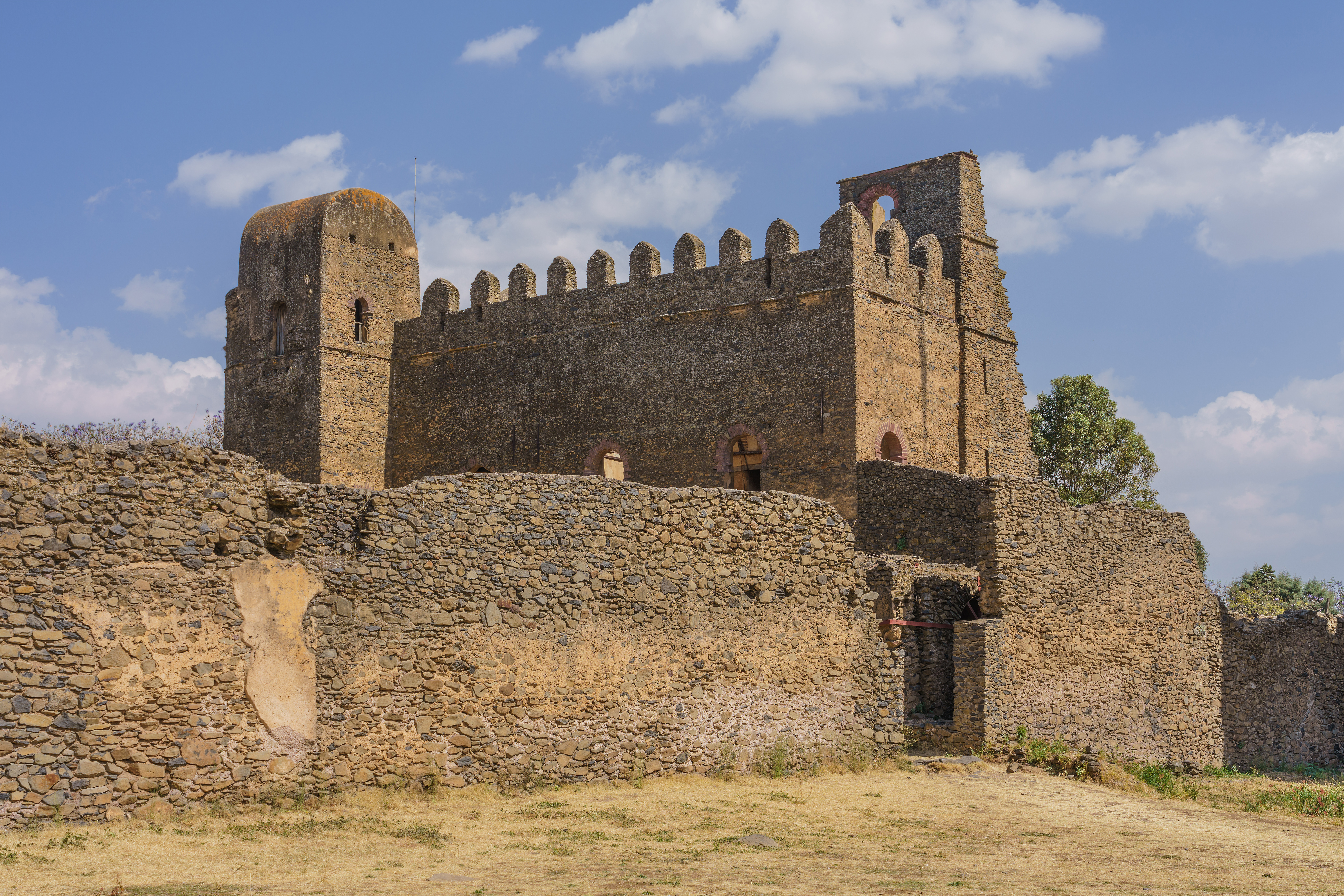 Fasil Ghebbi fortress in Gondar, Ethiopia